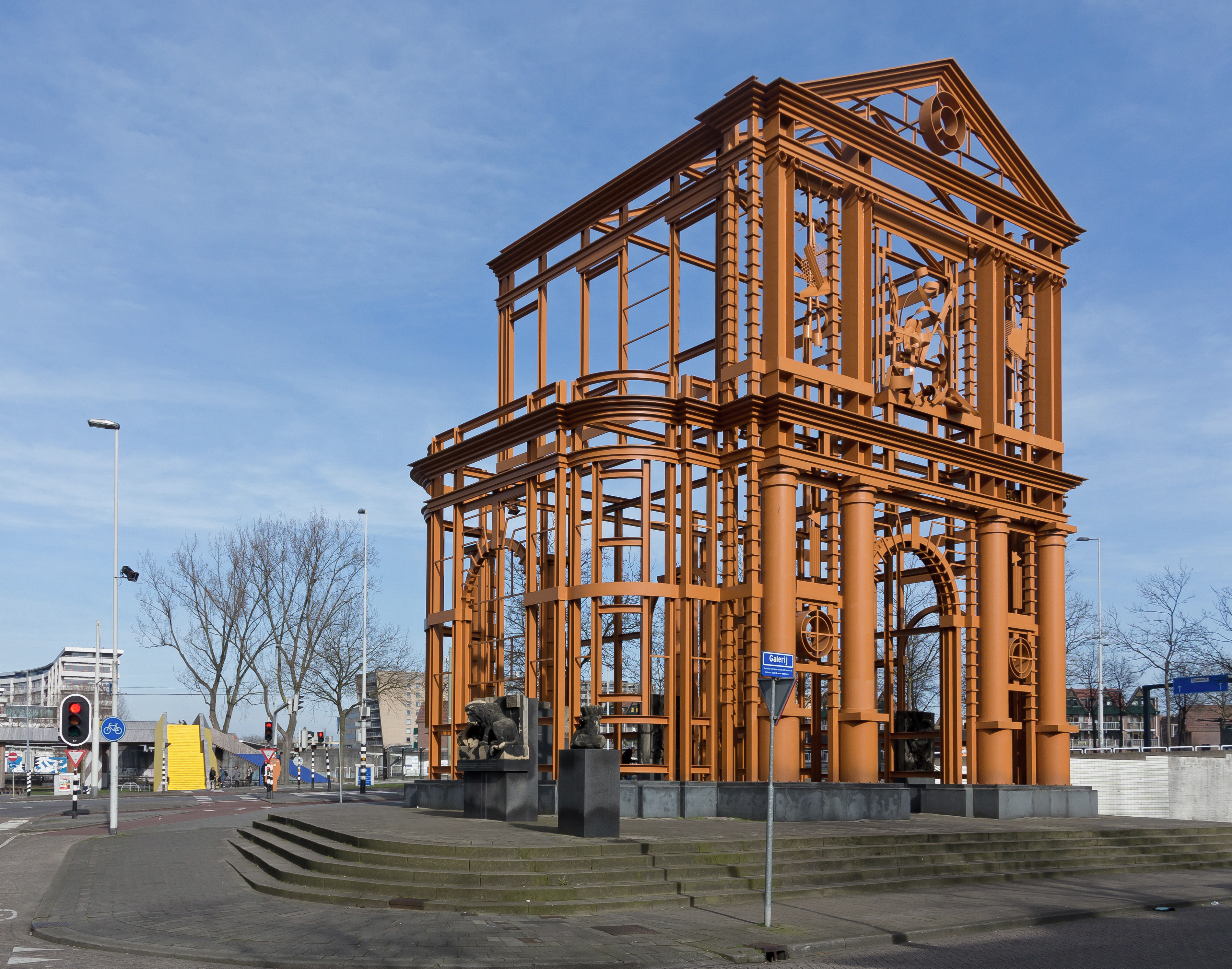 Rotterdam, monument for former city gate: de Nieuwe Delfse Poort